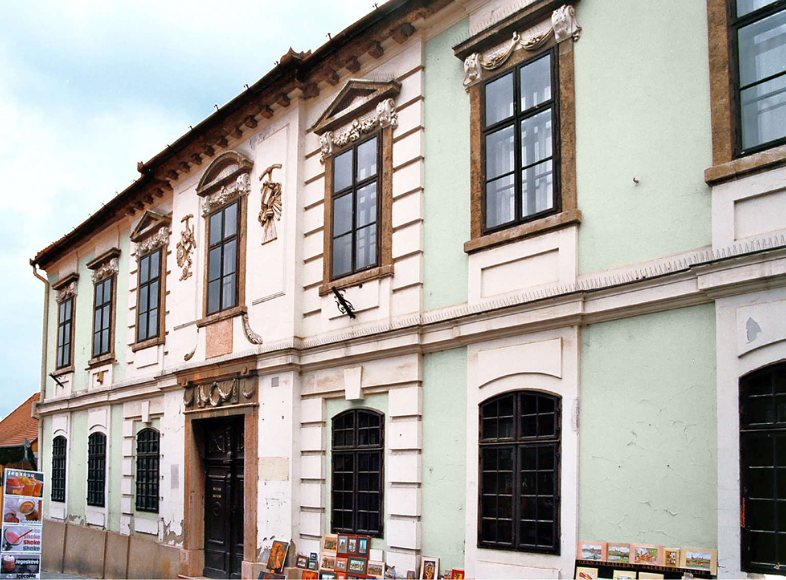 The old Ferenczy-Károly-Museum at the Fő-Place, Szentendre, Hungary, 1912.